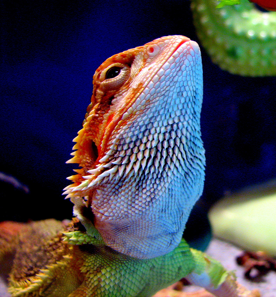 Bearded Dragon